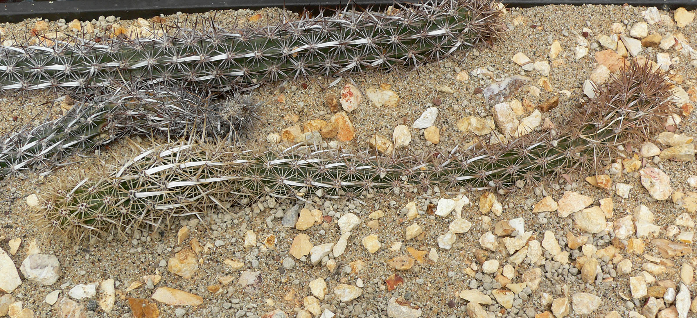 Photo of Stenocereus eruca at the University of California Botanical Garden